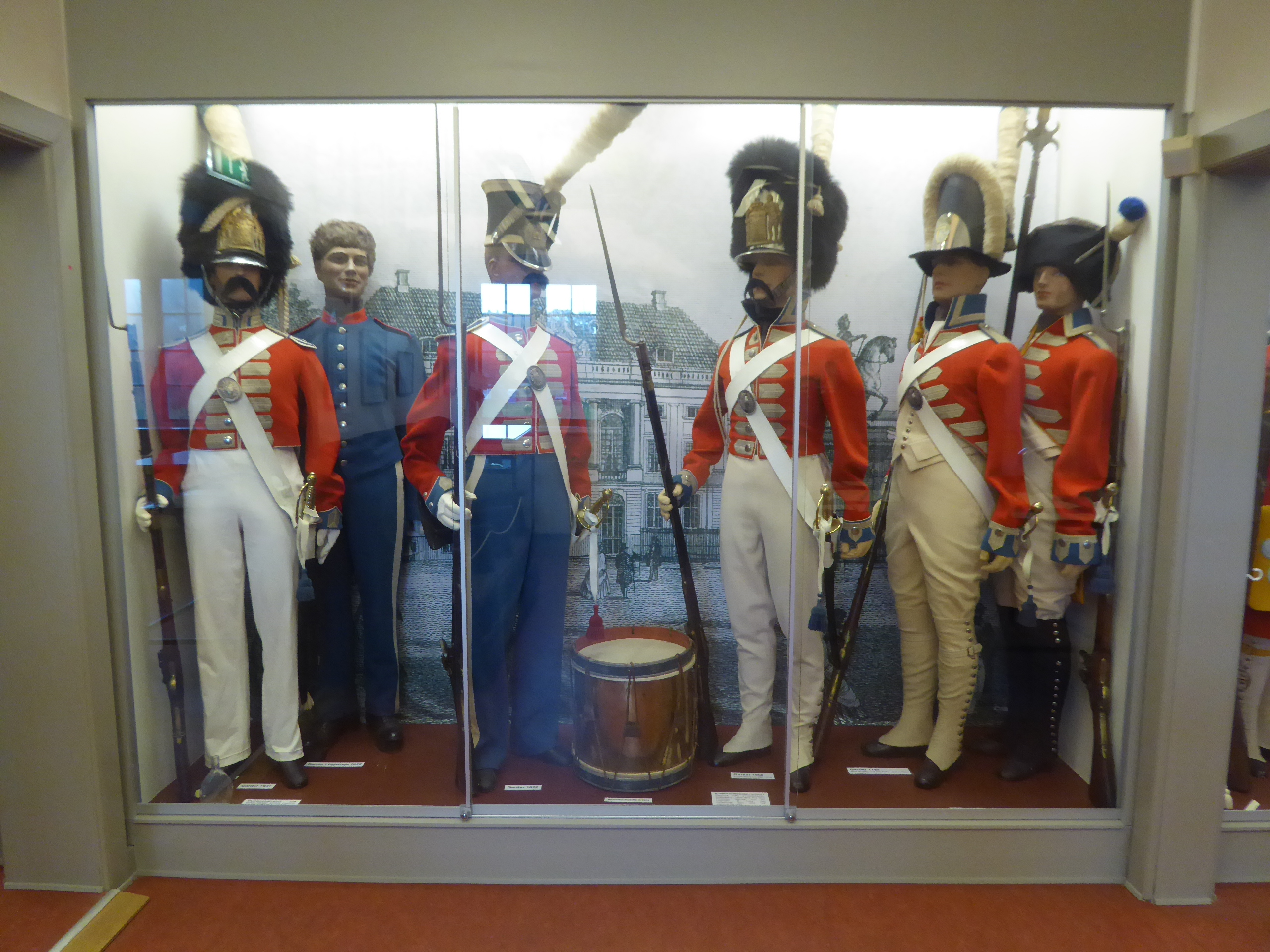 The museum of the Royal Life Guard of Denmark in Copenhagen. Uniforms of the guard from the beginning of the 19th century.